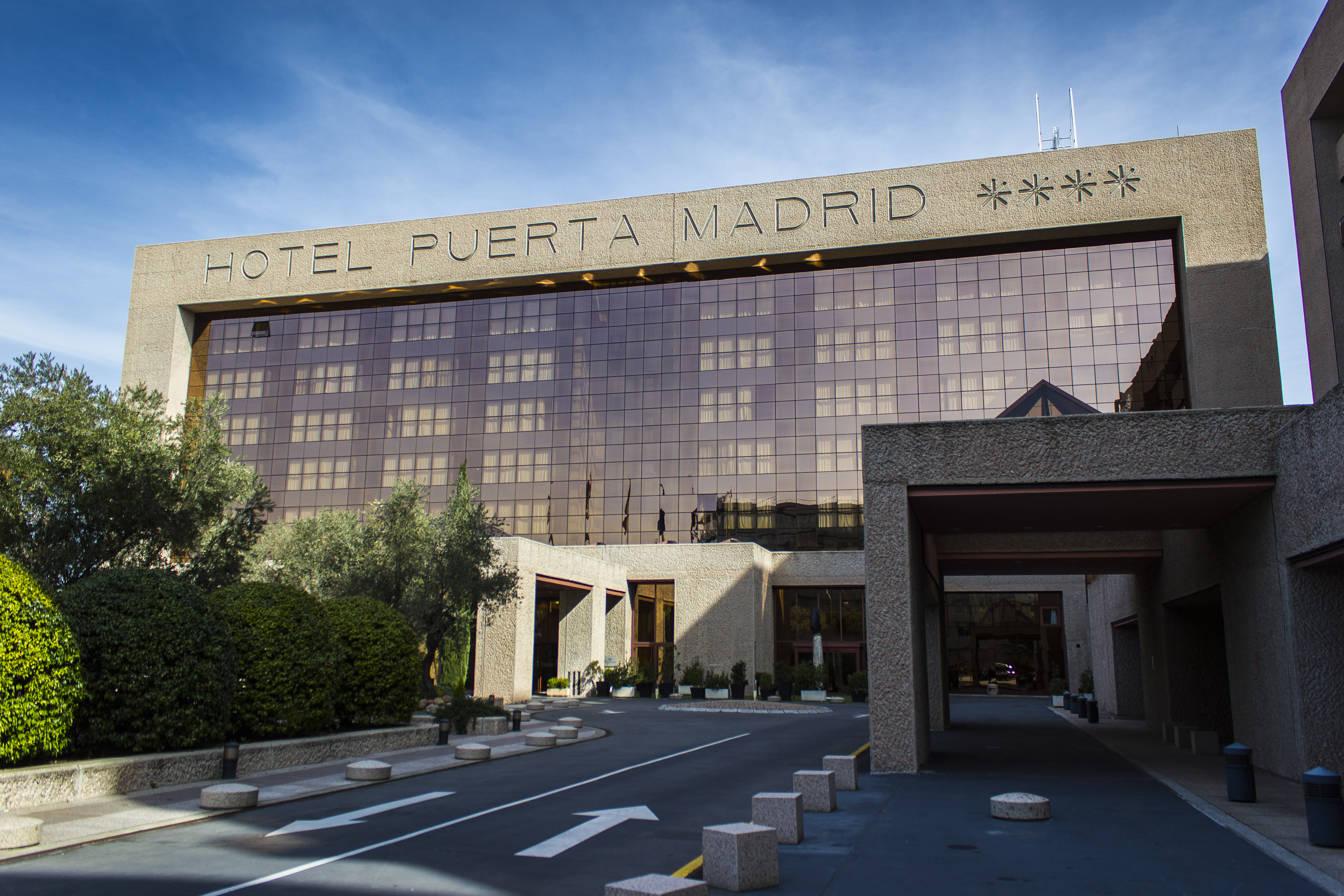 Hotel Silken Puerta Madrid